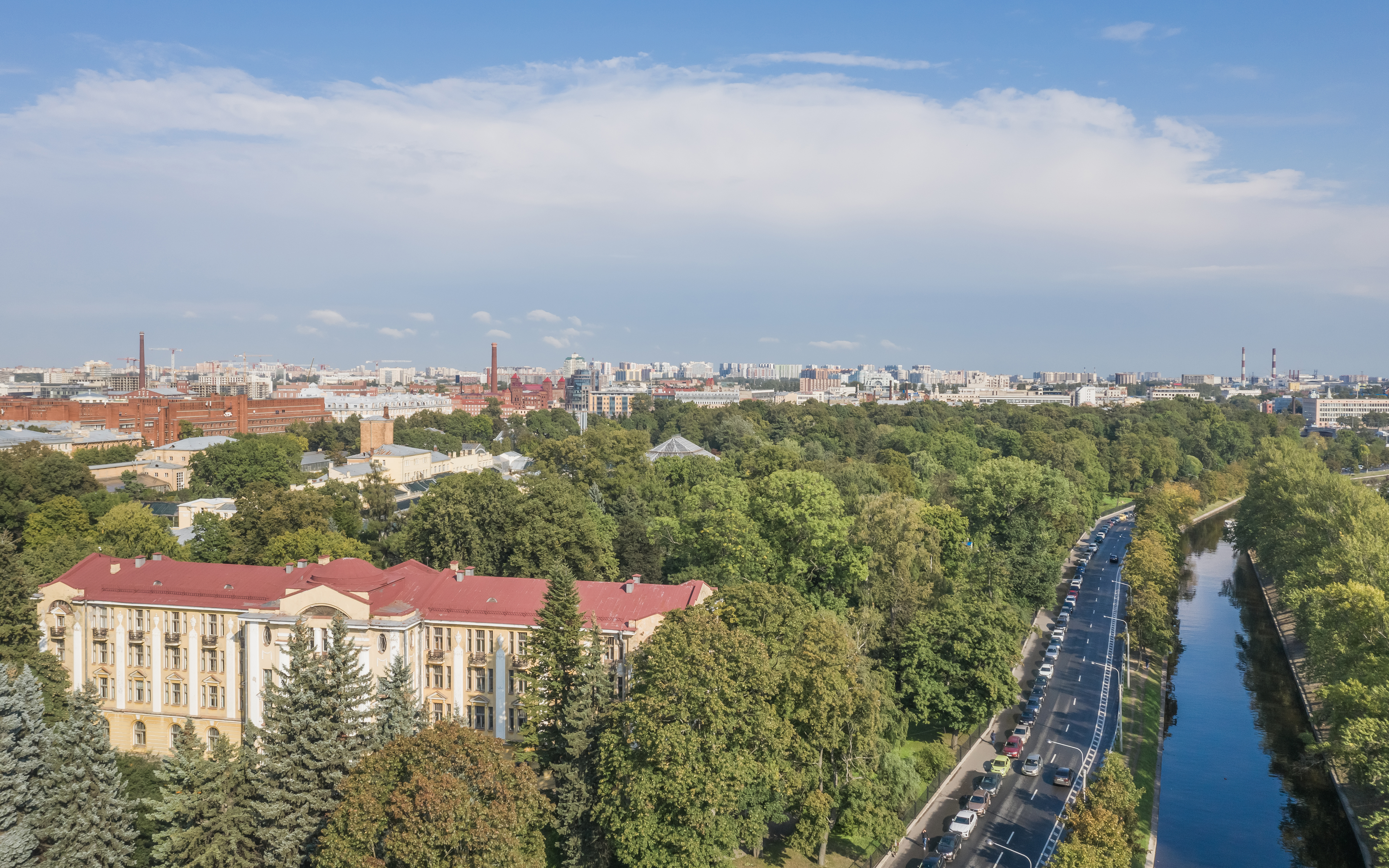 Botanical Garden on Aptekarsky Island in Saint Petersburg, Russia: aerial photo